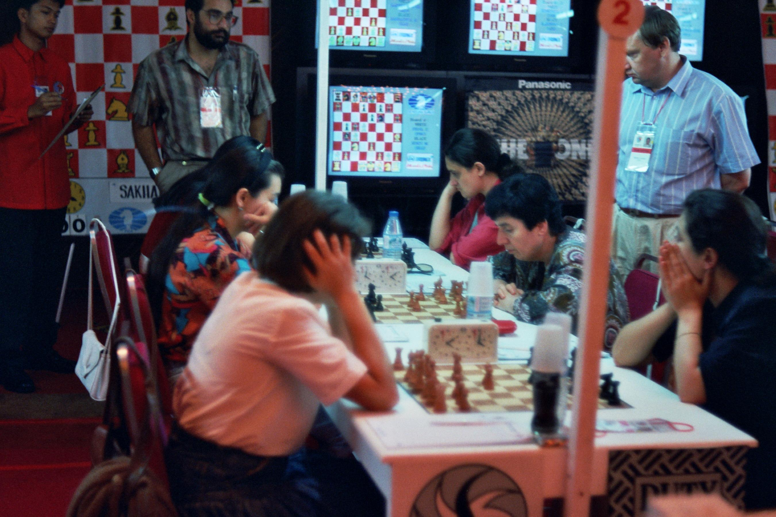 Kazakhstan (Gulnar Sakhatova (Sachs), Elvira Sakhatova (Berend), Fliura Uskova (Khasanova)) - Georgia (Chiburdanidze, Gaprindashvili, Joseliani), 10th round, Chess Olympiad 1992 in Manila, Photographer Gerhard Hund.